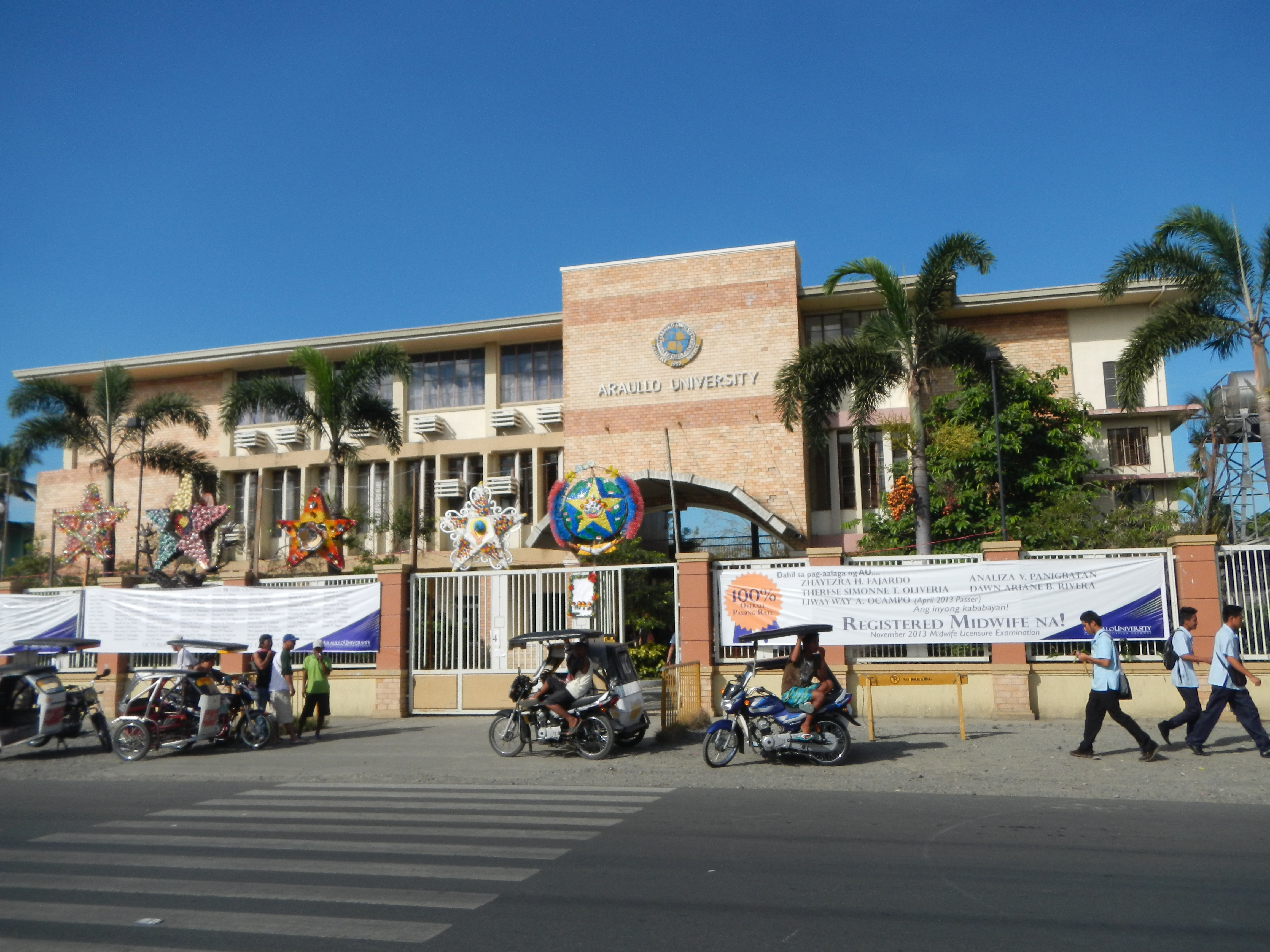 Upload Wizard Panorama photos of -- (general description of landmarks, town, Church, going to dark, sunset conditions) - the Pan-Philippine Highway or Daang Maharlika Highway passing along the scenery and Town buildings, establishments - a) Araullo University [1] [2] Chito B. Salazar Cabanatuan City, Nueva Ecija, Philippines b) Dalin Bus Line Dalin Liner Inc. in the List of bus companies of the Philippines[3] c) Friendship Supermarket, Inc. (FSi), beside 7-Eleven[4] Convenience store d) and scenery of Carranglan, Nueva Ecija[5].